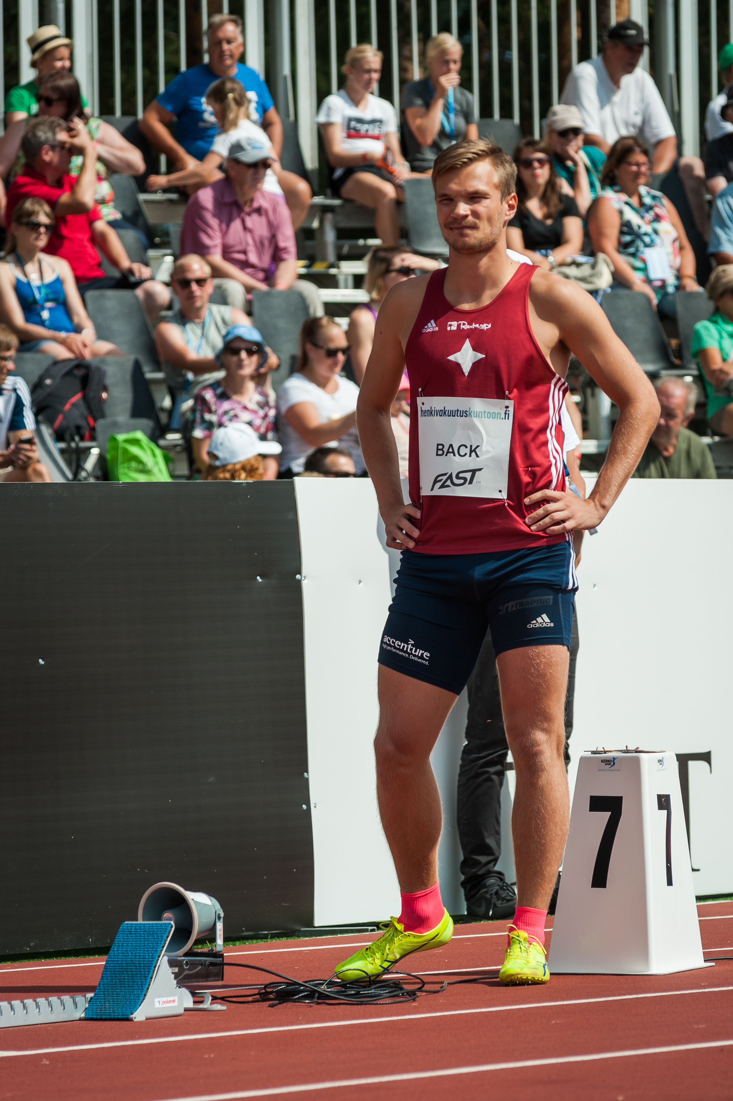 Men's 200 m competition at the 2018 Kalevan Kisat, the Finnish championships in athletics, in Jyväskylä, Finland.